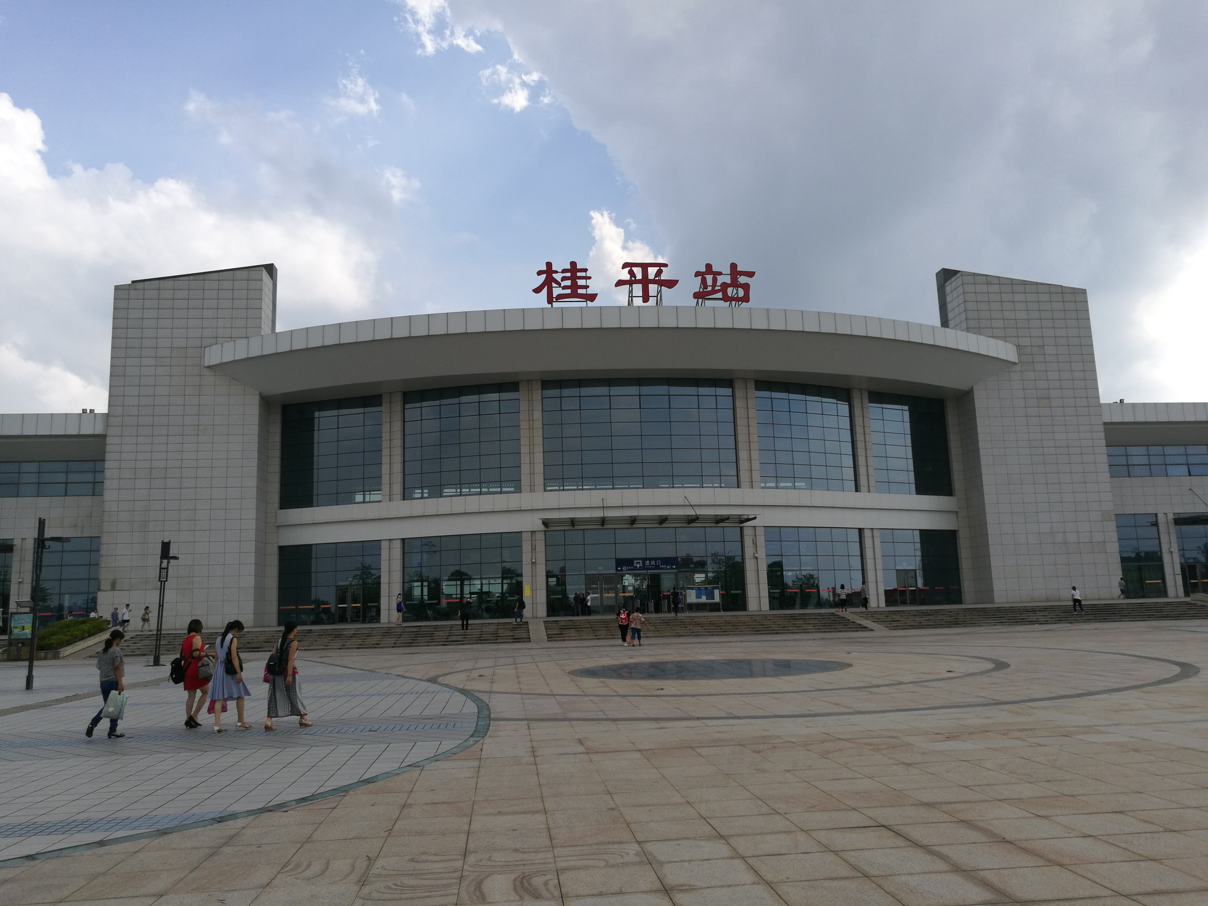 Guiping Railway Station